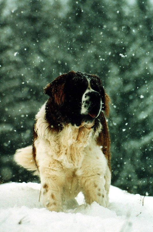 St. Bernard Dog in winter